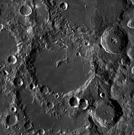 LROC . Von Kármán at center, northeast sector buried by Leibnitz ejecta ; Finsen at upper right, Alder at lower right